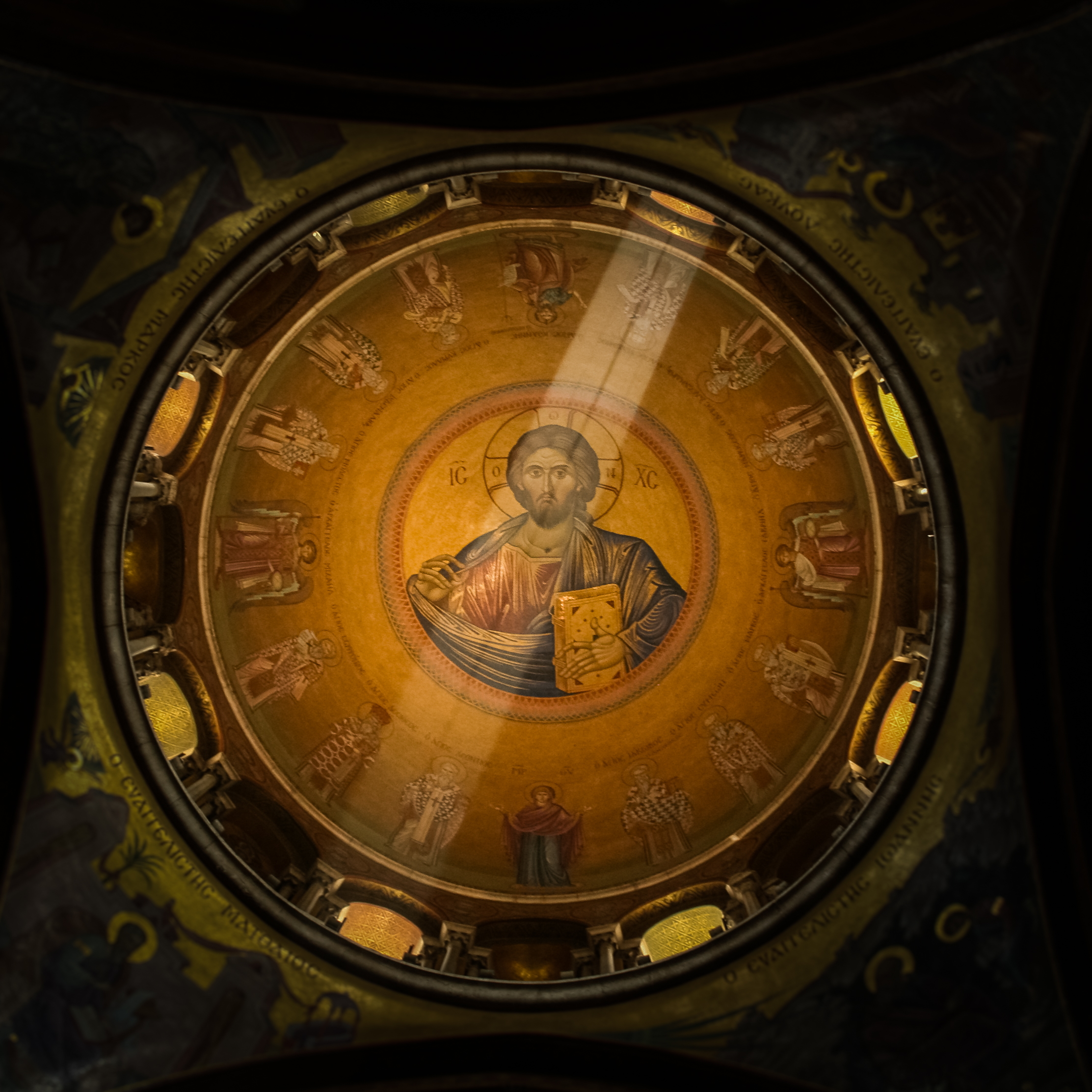 Catholicon, Holy Sepulchre, Jerusalem